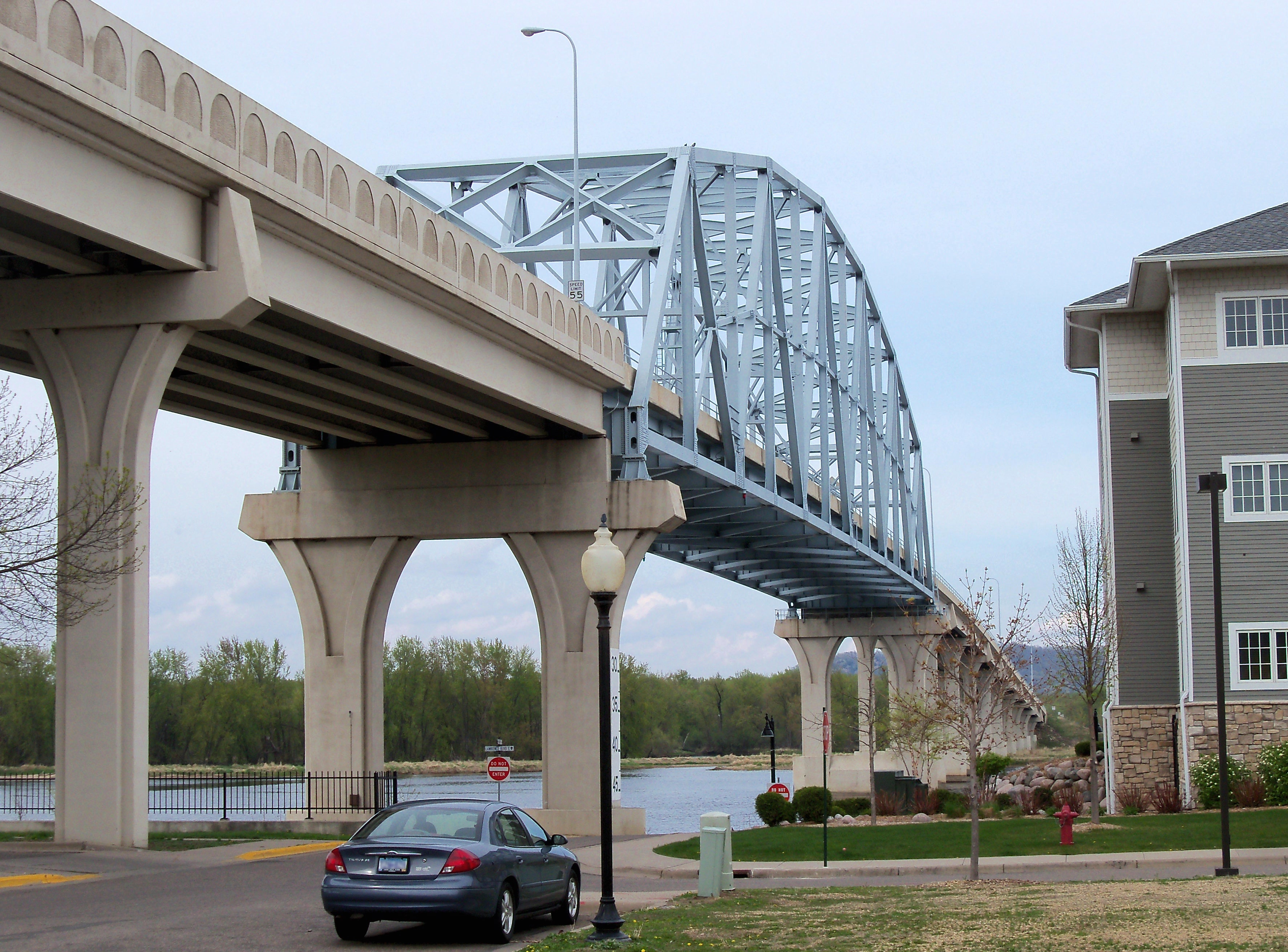 Wabasha Bridge over the Mississippi River in Wabasha, Minnesota, USA.